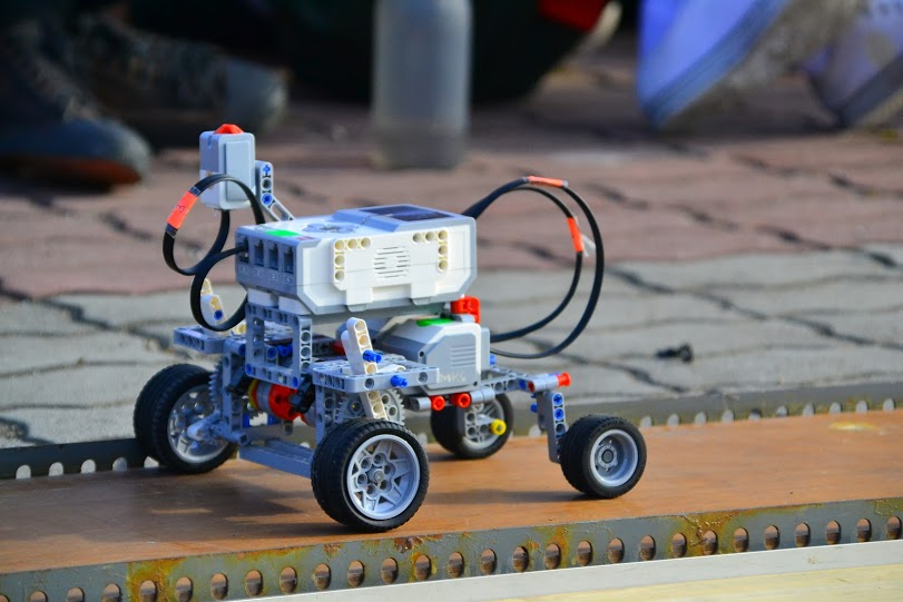 Cekap tenaga 9